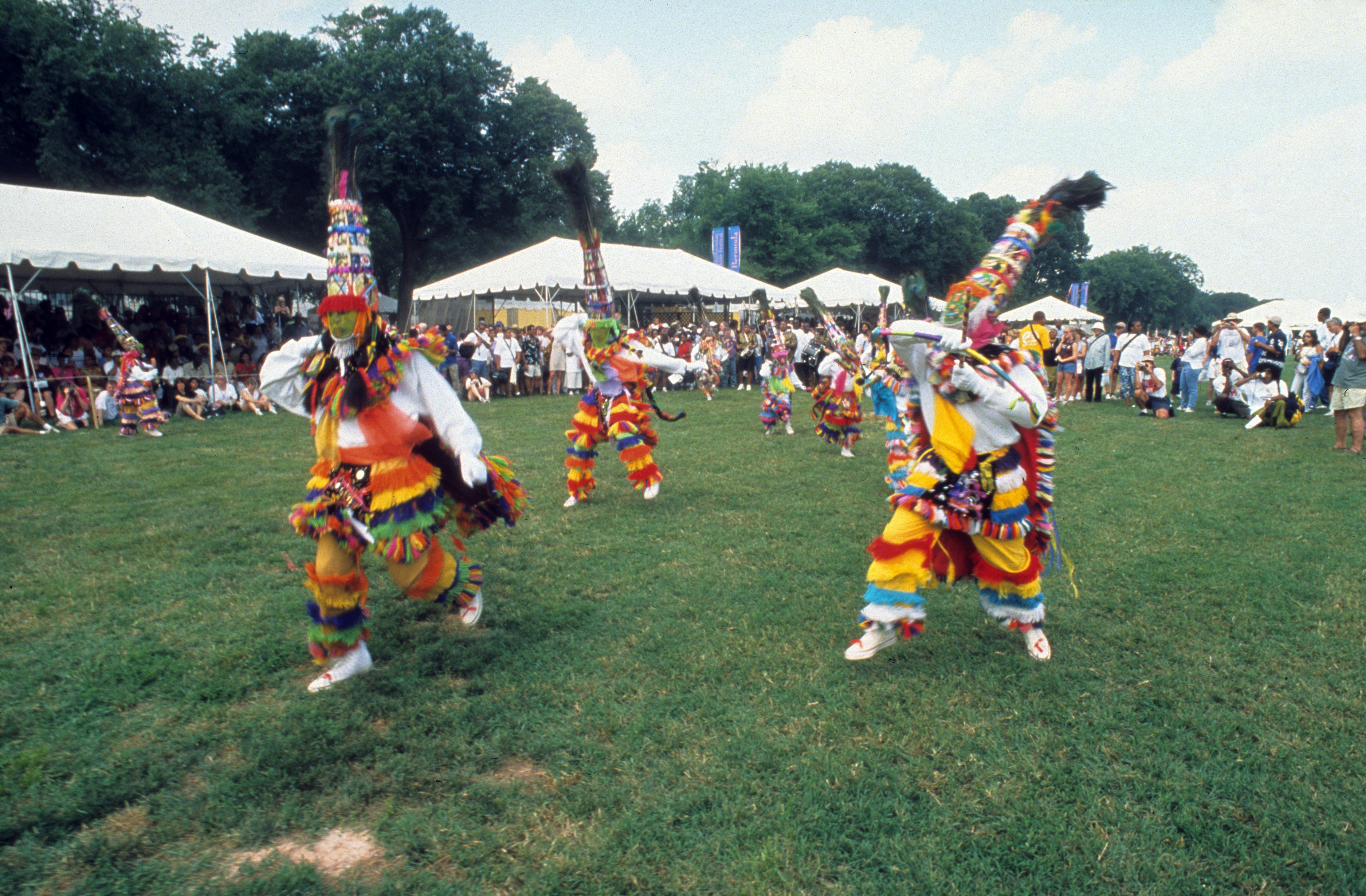 Description: Gombey dancers from Bermuda perform during the 2001 Smithsonian Folklife Festival on the National Mall. Creator/Photographer: Harold Dorwin Medium: Medium unknown Geography: USA Date: 2001 Persistent URL: [1] Repository: Center for Folklife and Cultural Heritage/Ralph Rinzler Folklife Archives and Collections Accession number: 2001-5964